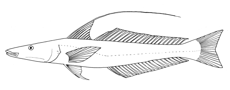 Higher detail, png drawing of same fish - Sillaginopsis panijus - better quality